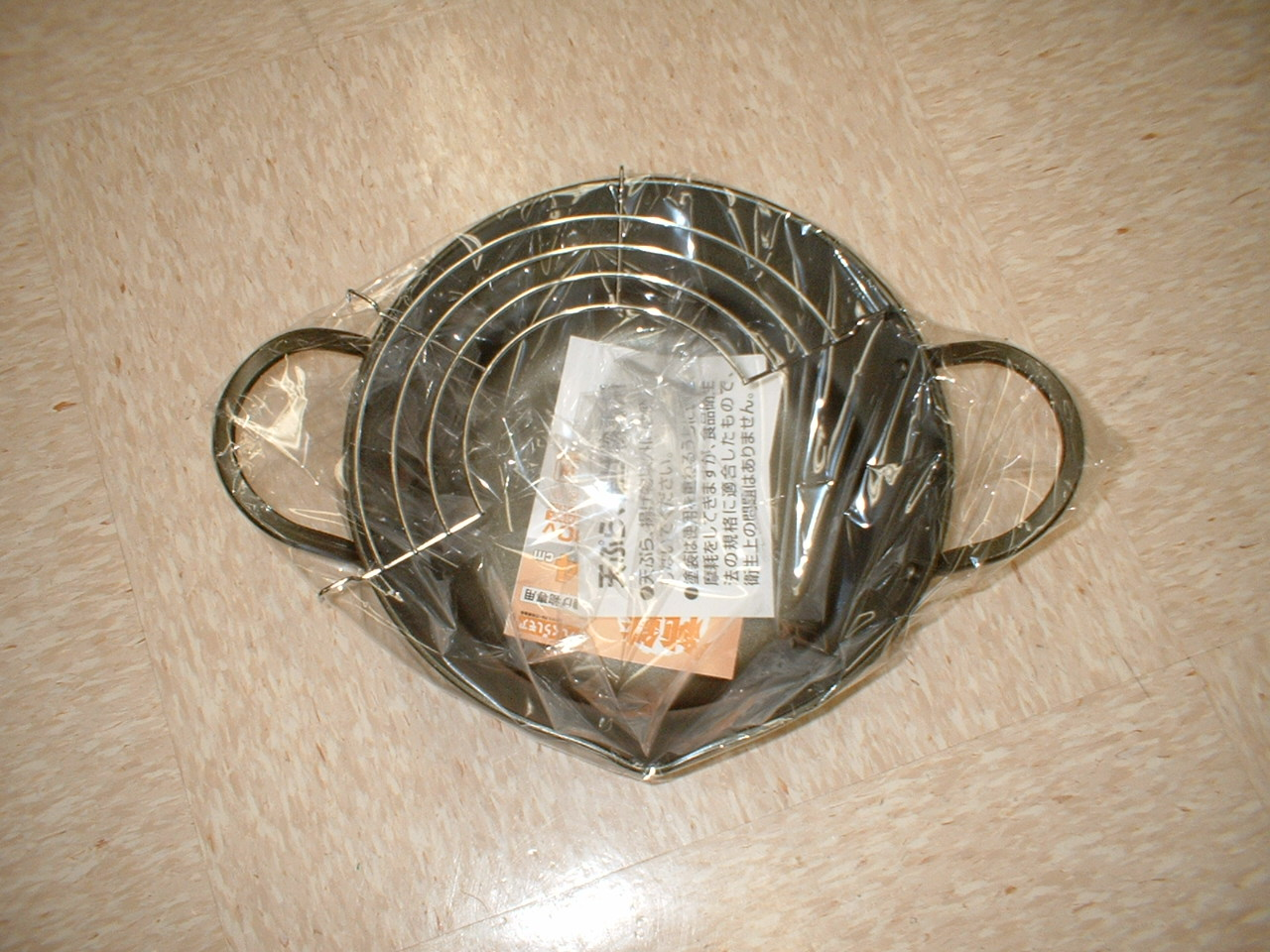 Pot for frying tempura with abura kiri(油きりが付いているテンプラ鍋)